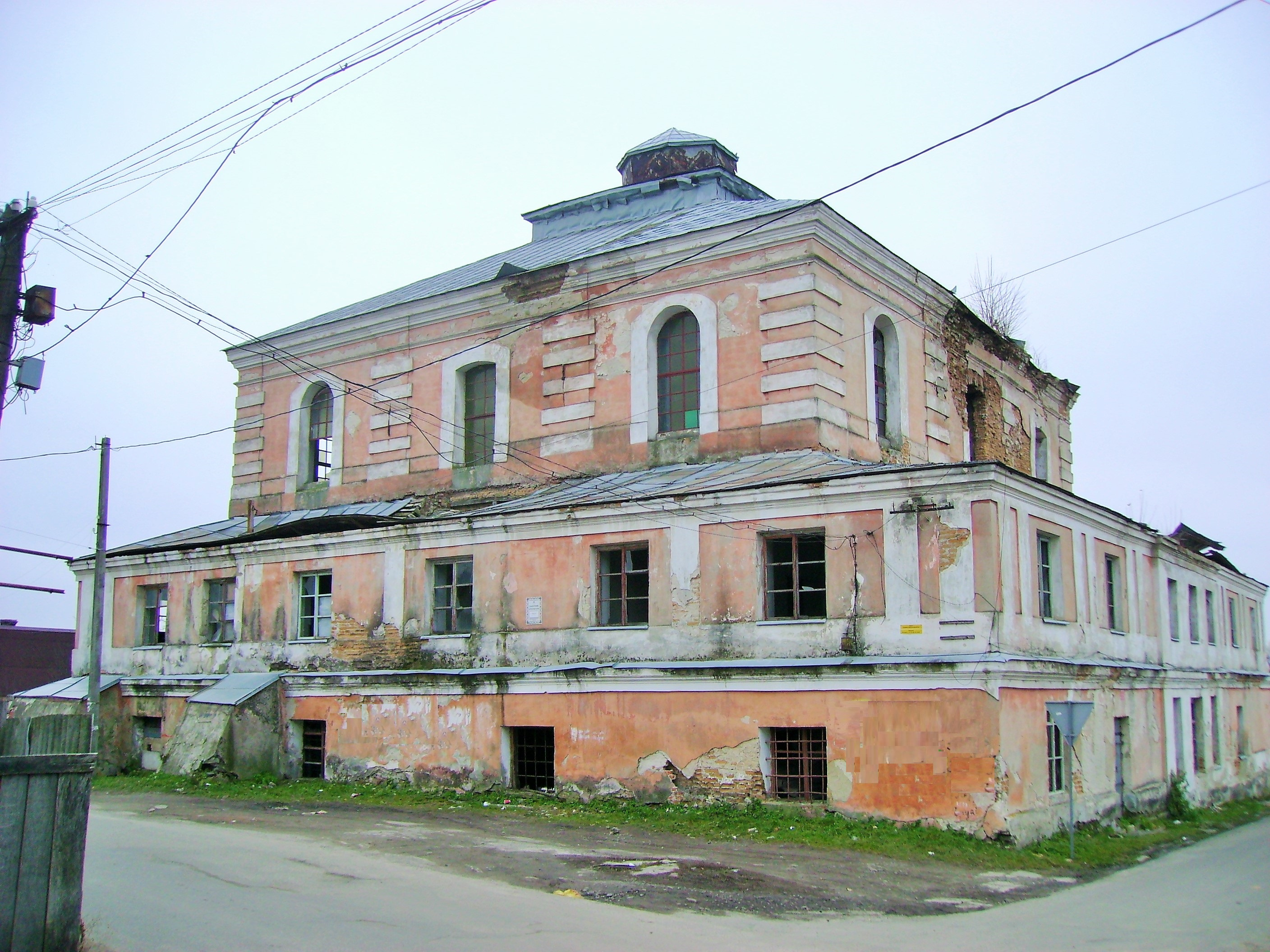 м.Дубно